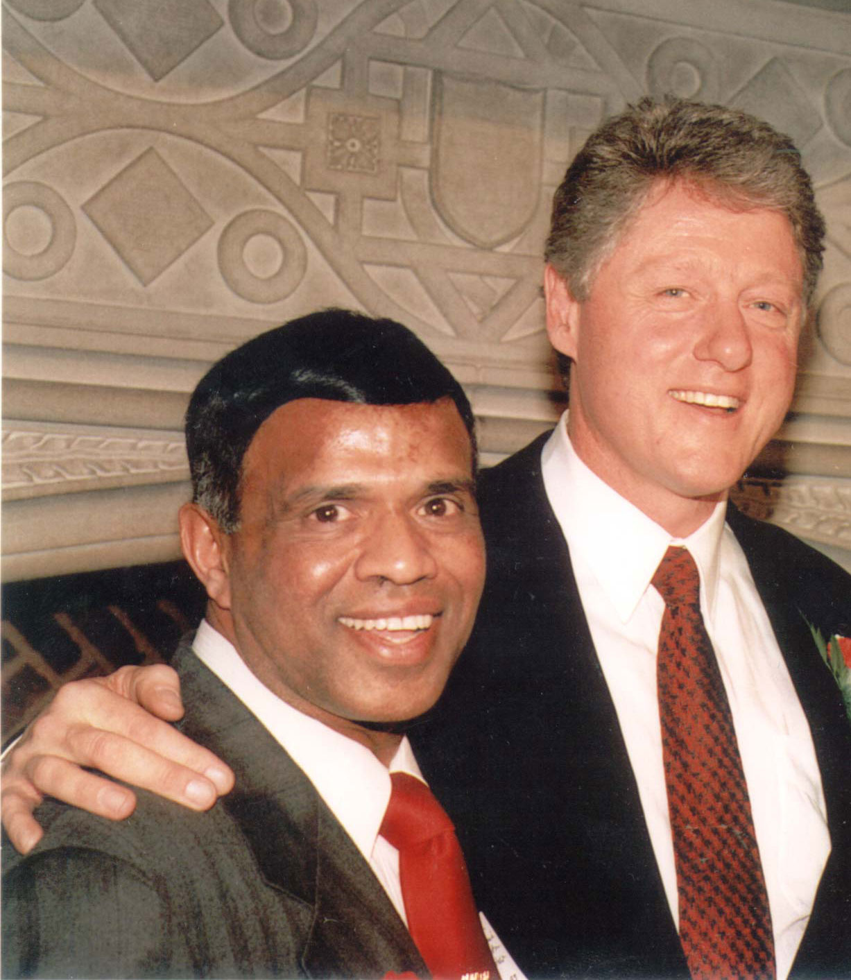 Photograph of US President Bill Clinton and Dr. Appu Kuttan